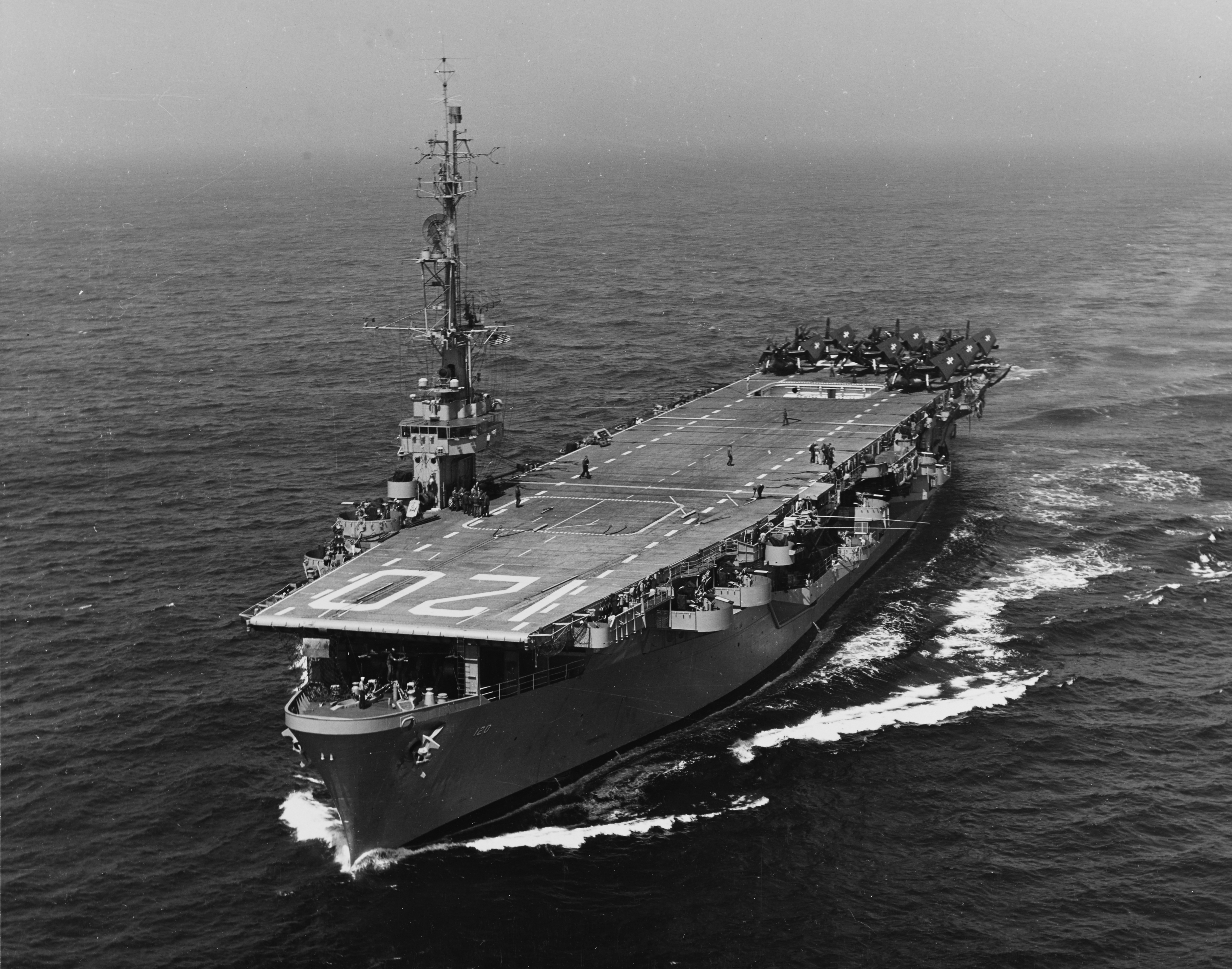 The U.S. Navy escort carrier USS Mindoro (CVE-120) underway on 30 April 1952.